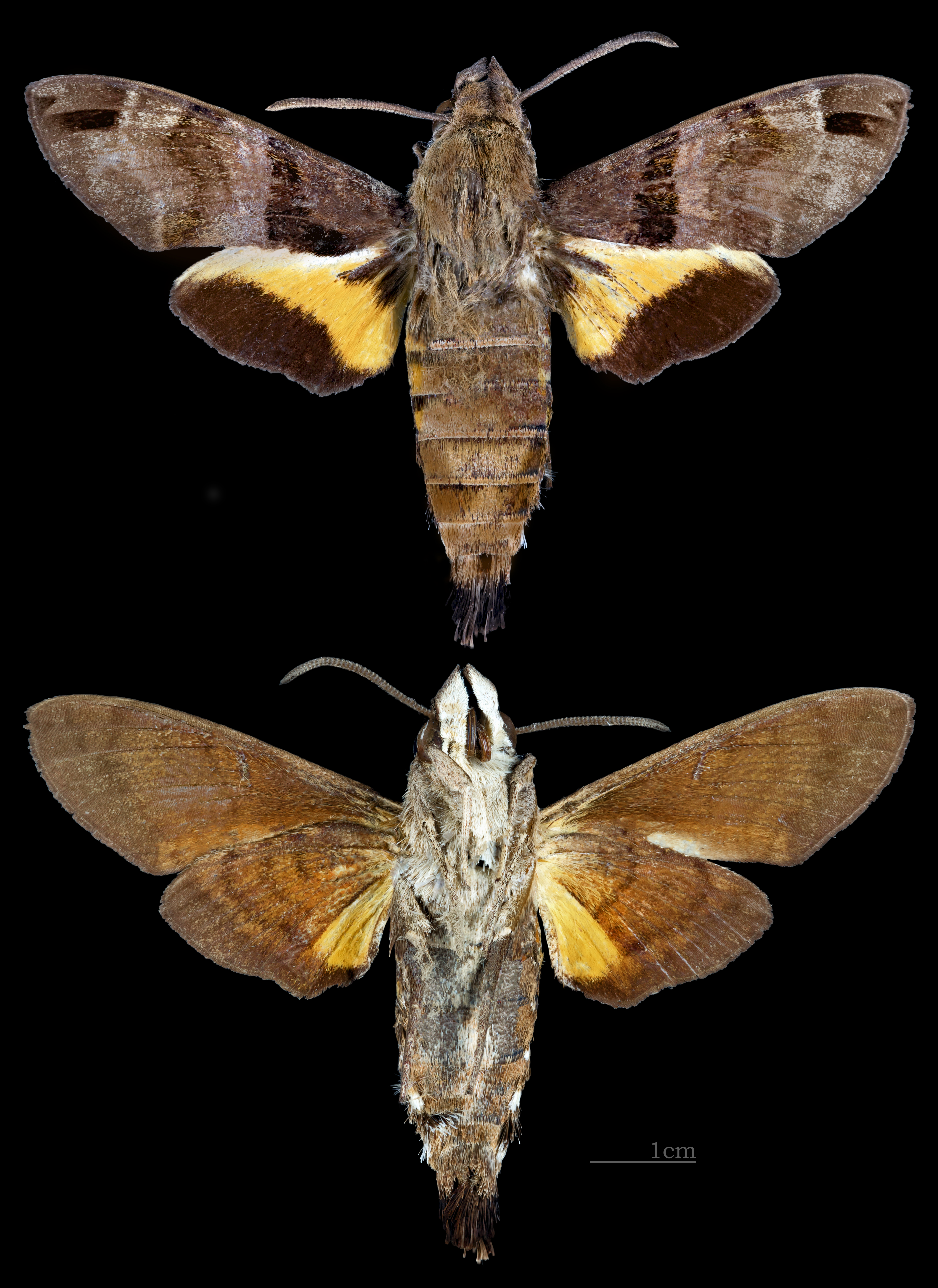 Macroglossum pyrrhosticta - Two views of same specimen Collection of the Mathematician Laurent Schwartz